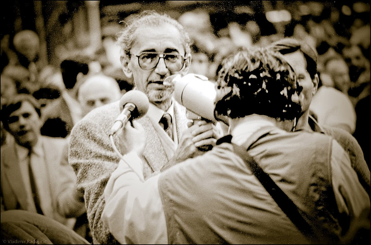 Borislav Pekic in great demonstrations in Belgrade on March 9th 1991